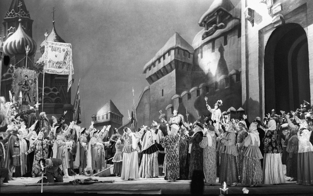 “Scene from Mikhail Glinka's opera "Ivan Susanin"”. A scene from Mikhail Glinka's opera "Ivan Susanin" performed at the Bolshoi Theatre of the USSR (now Russian State Academic Theater of Opera and Ballet).